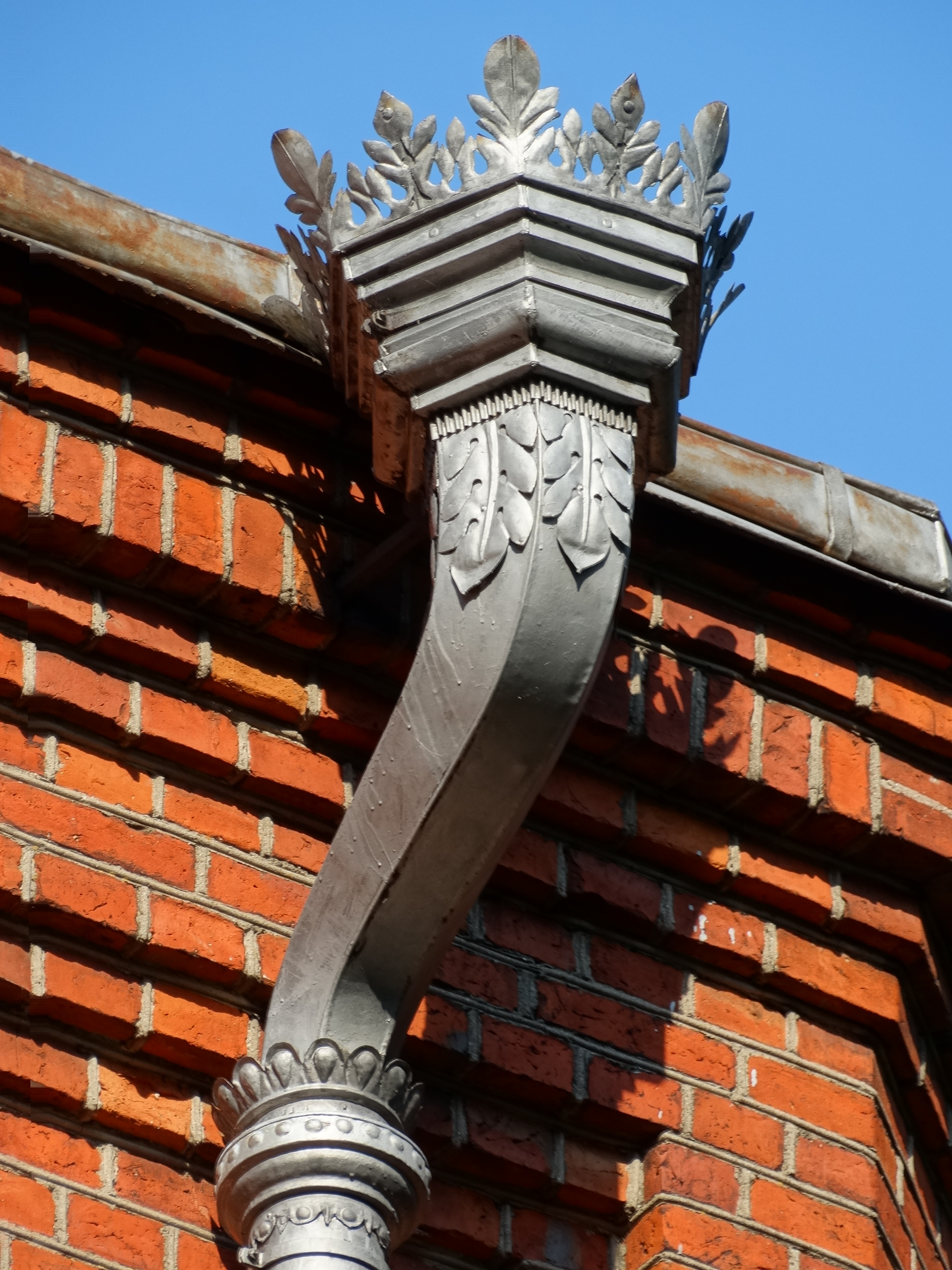 Rain gutter, church in Debeikiai, Anykščiai District, Lithuania